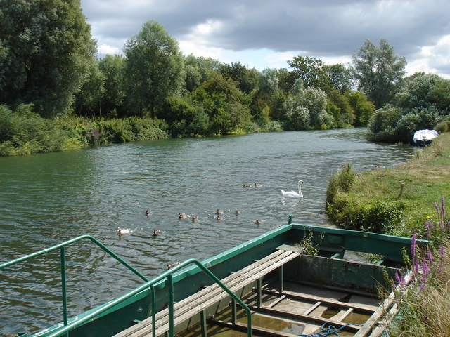 Bablock Hythe Ferry sadly not running on the day I polled up on the bicycle..